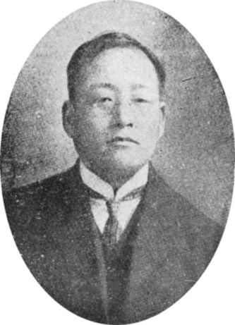 Mr. Sukeichi Shinohara.